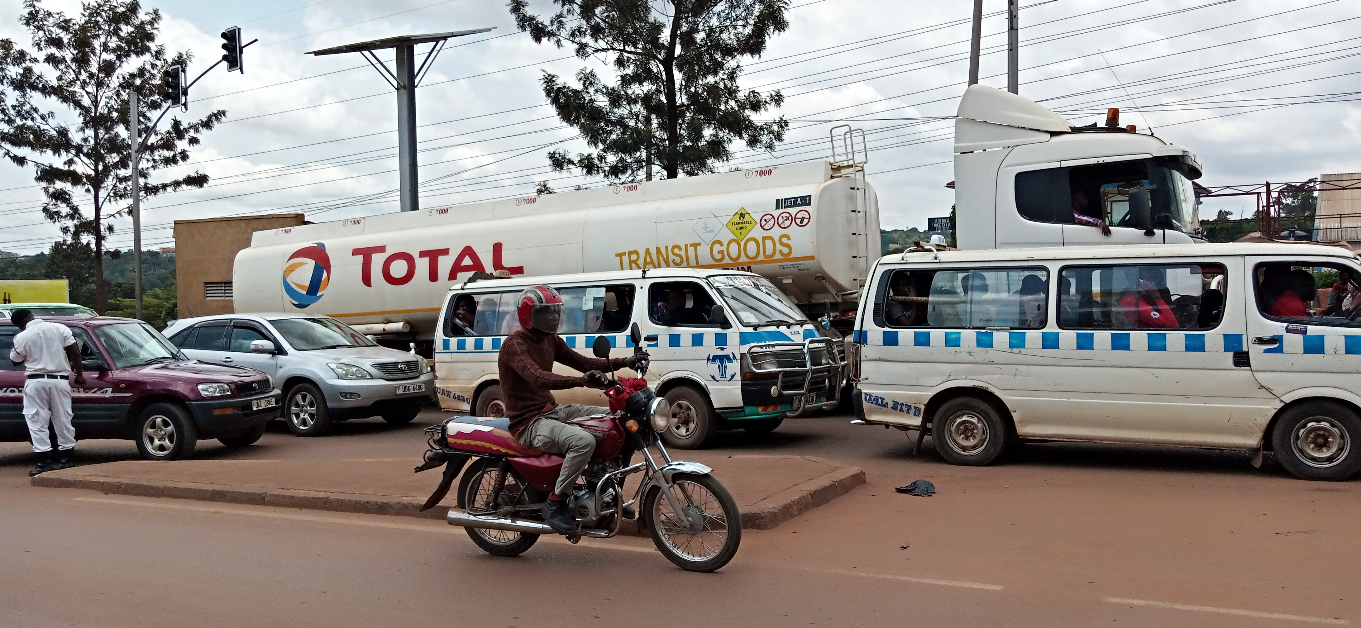 Transport This is an image with the theme "Africa on the Move or Transport" from: Uganda